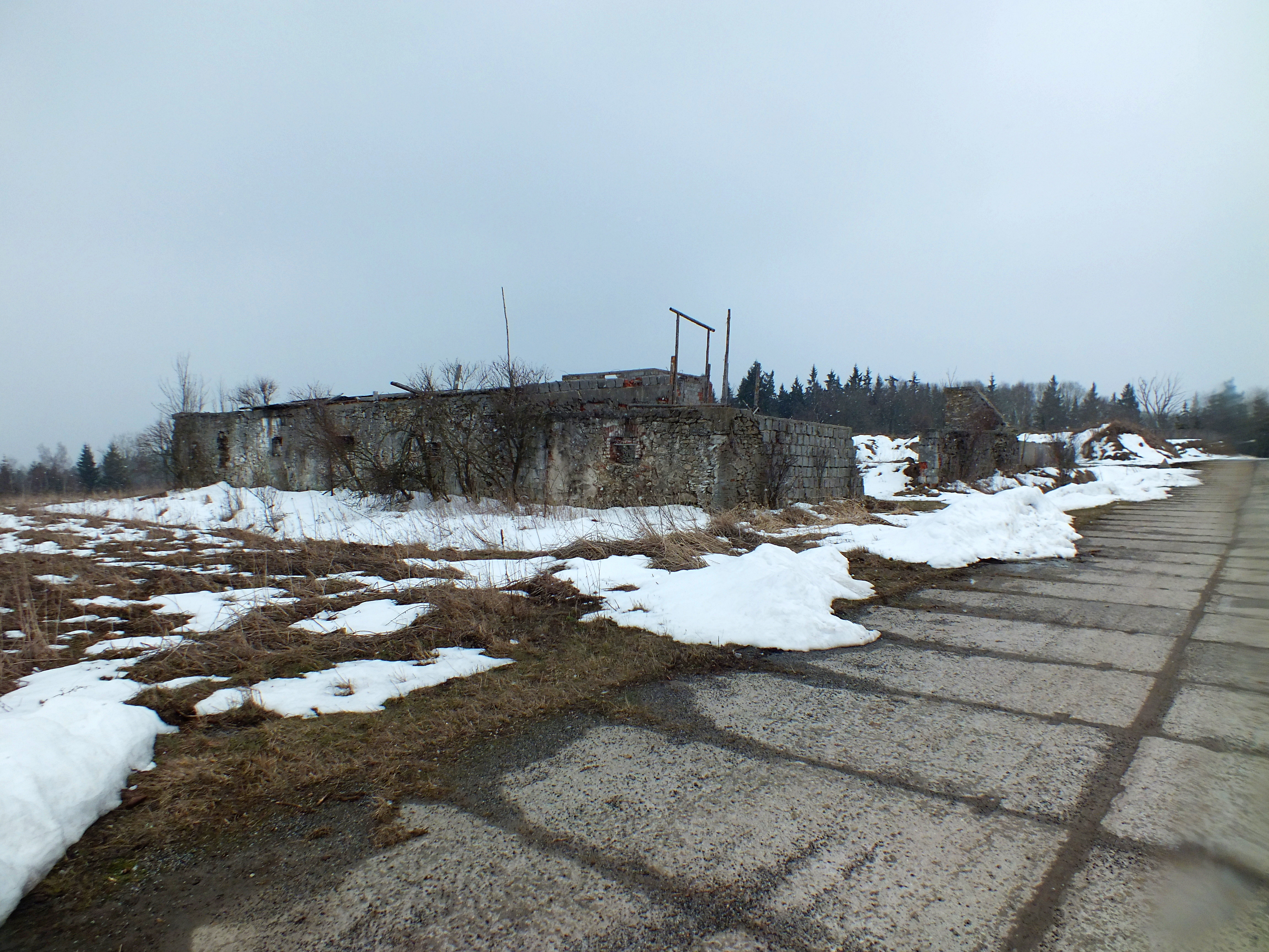 The centre of the former village Ondřejov (Andreasberg) in the military area Boletice - the view to the cemetery